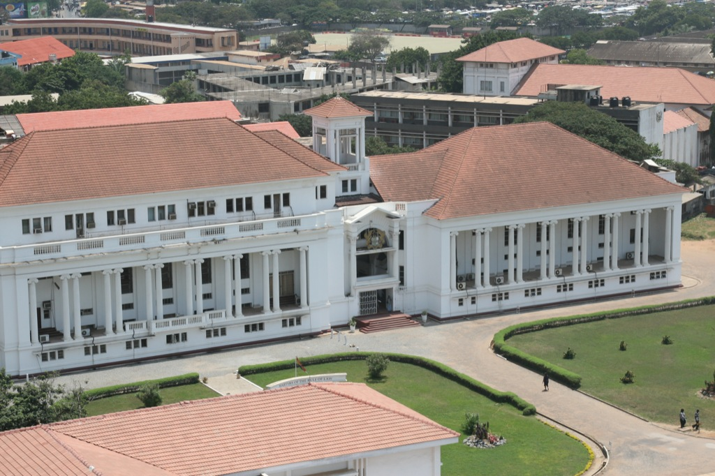 The Supreme Court of Ghana is a lovely example of the colonial architecture in West Africa.